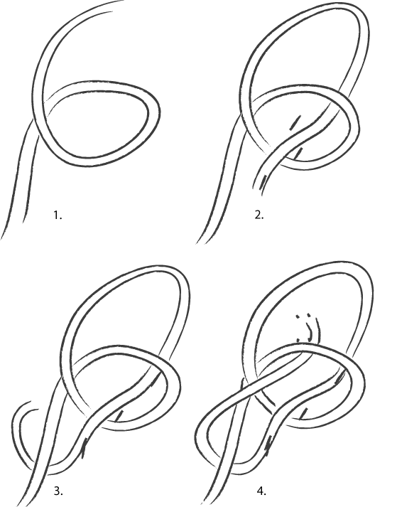 Adapted from Noeud_de_chaise_par_%C3%A9tapes.png (already in Wikimedia Commons) by removing the French language legends. for more info on the original image.